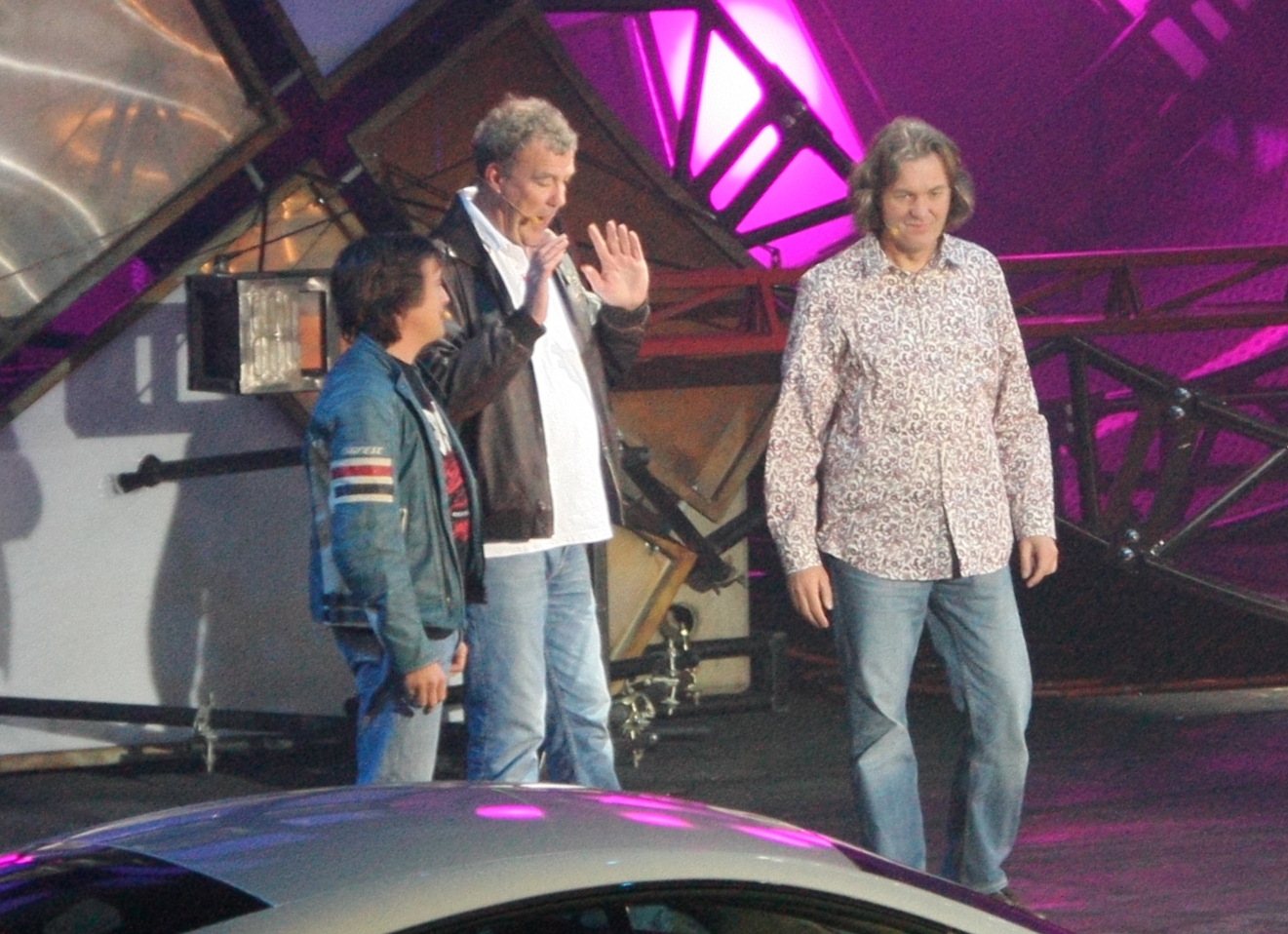 Clarkson, Hammond and May doing their thing at the NEC, Top Gear Live